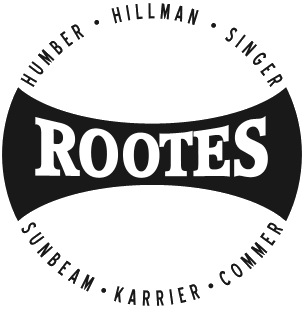 Logo of the Rootes Motors Limited.